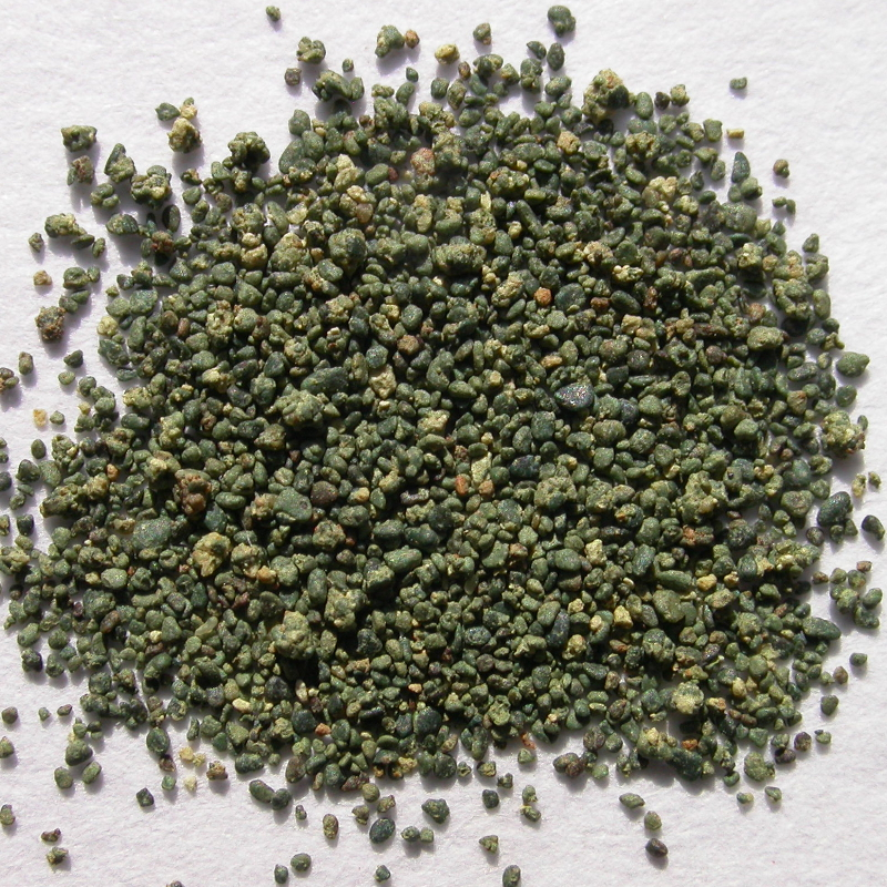 Glauconite (Field of View 15 mm) Locality: Adams County, Ohio, USA Silurian glauconite pellets from near Peebles, Adams County, Ohio.